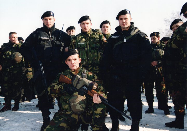 Near Matejce, Kumanovo with Slavomakedonian special police. Policemen in black are "Tiger" and in green "Lions" unit. Policeman in first row holding Zastava M76 sniper rifle.